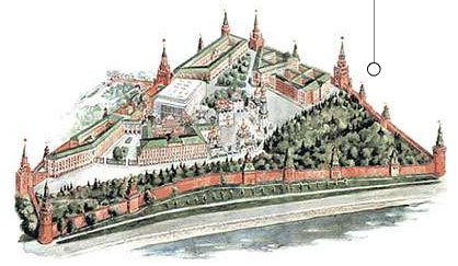 Overview map of the Moscow Kremlin. Location of Red Square marked.